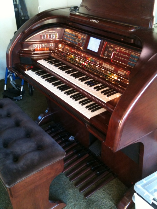 Lowrey organ (high end model) Posted by Ping.fm “A Lowrey Royale SU500 / Palladium 630 organ (high end model)” —English Wikipedia article "Lowrey organ"